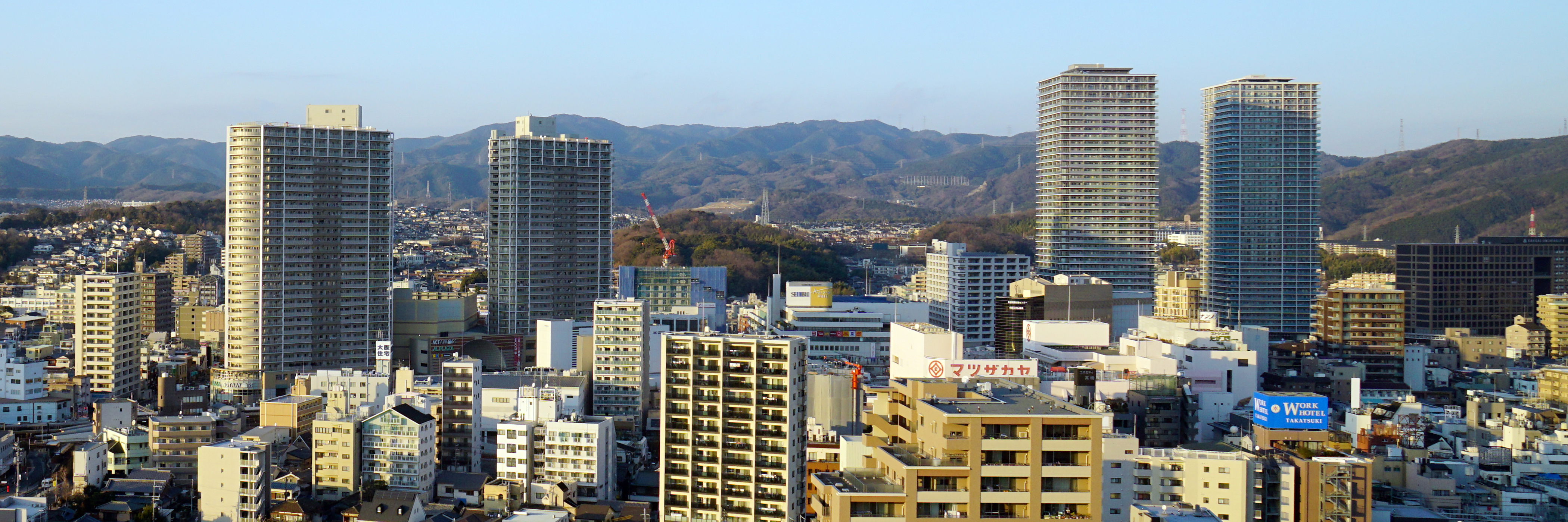 A city view from Takatsuki City Hall in Takatsuki, Osaka prefecture, Japan.